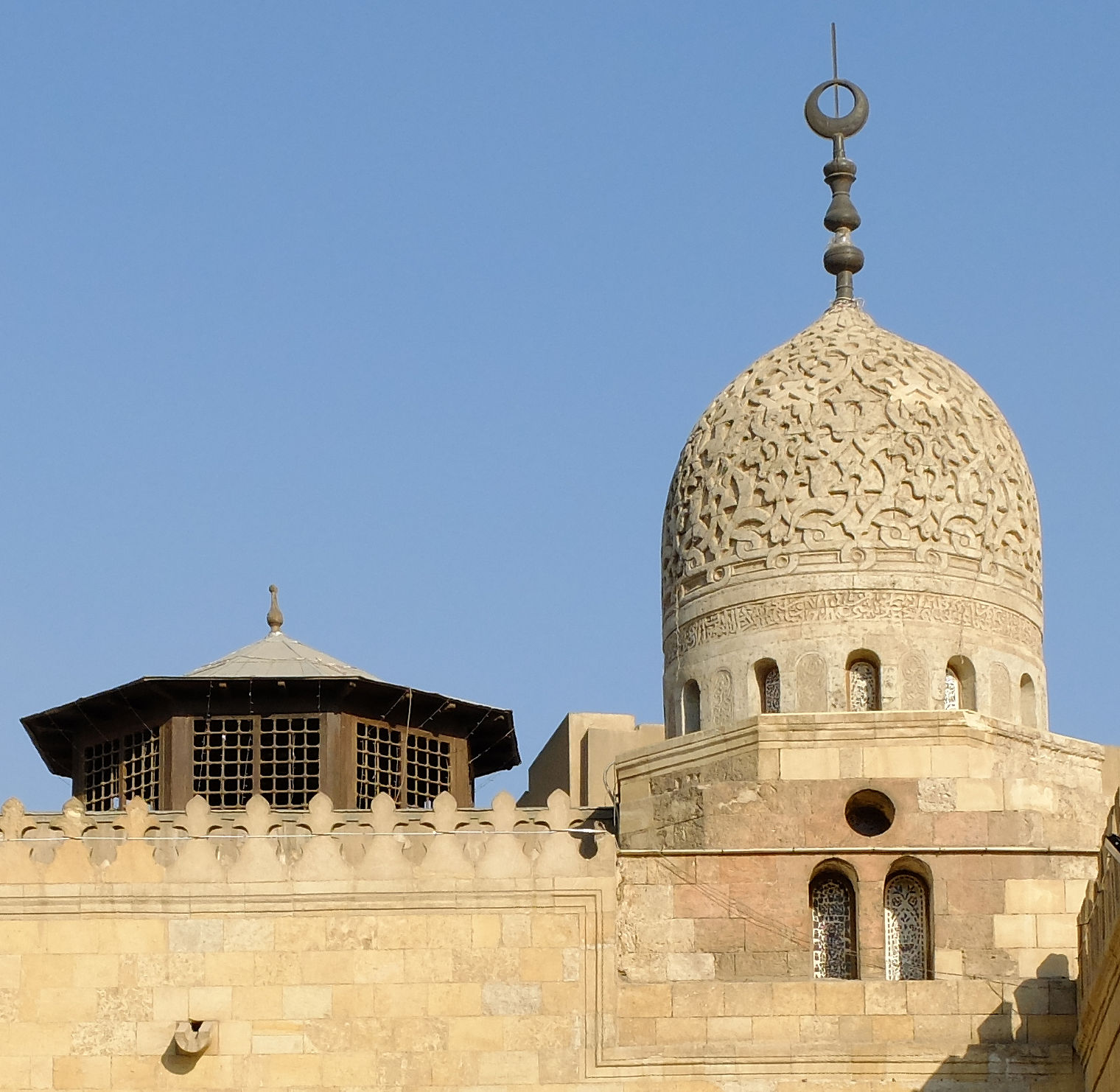 Dome of the Madrasa-Tomb of Gawhar al-Qanaqba'i, from 1440, built in 1440, at al-Azhar Mosque.